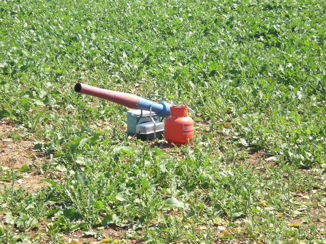 Bird scarer. A simple device commonly seen in the fields - a tank of gas, a battery, some circuitry in a box and a barrel. At a set interval, the scarer fires off two or three bangs.